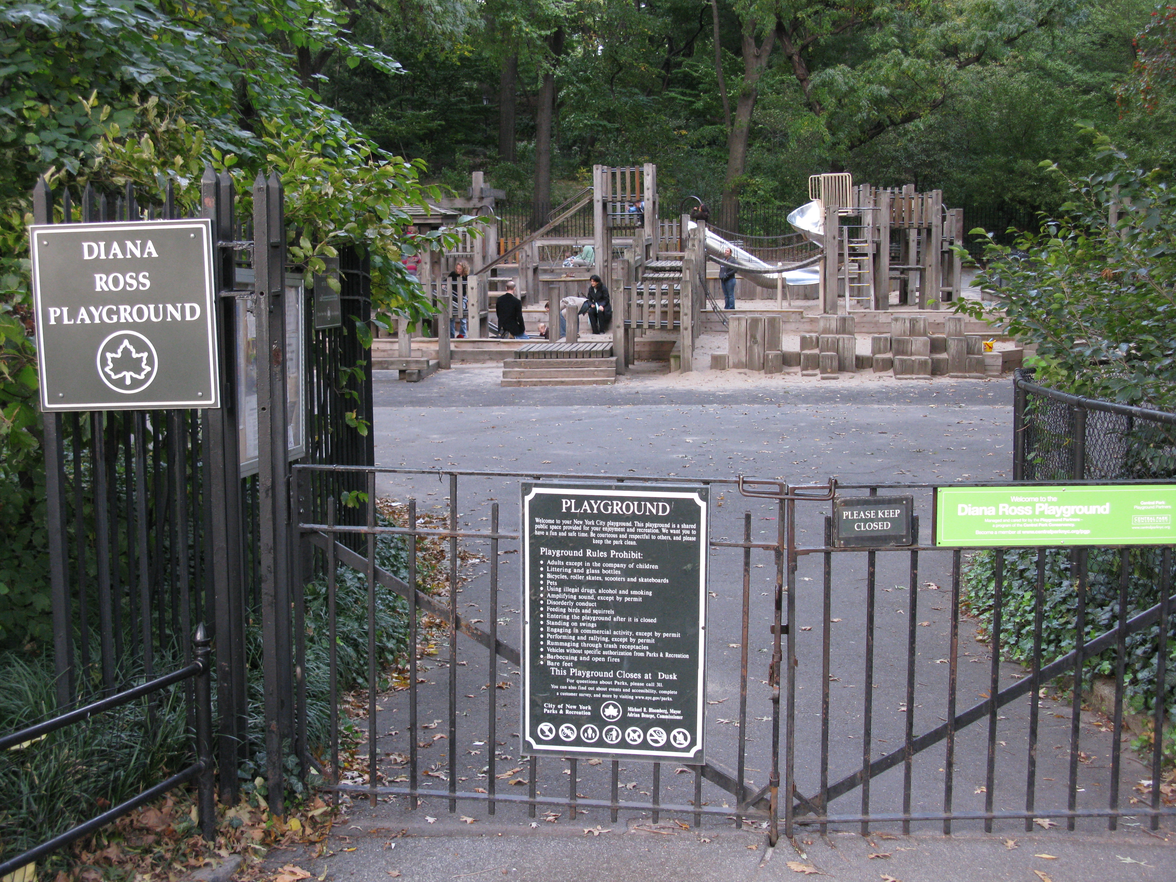 A 4,000x3,000 photo of the entrance to Diana Ross Playground in Central Park, NYC